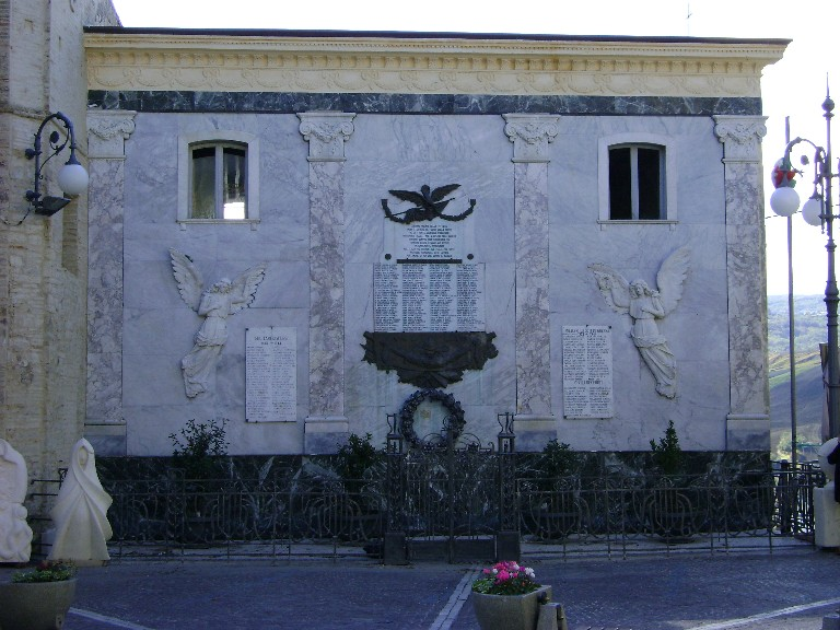 The church of Saint Giovanni at Atessa with the monument to the dead in the World War first